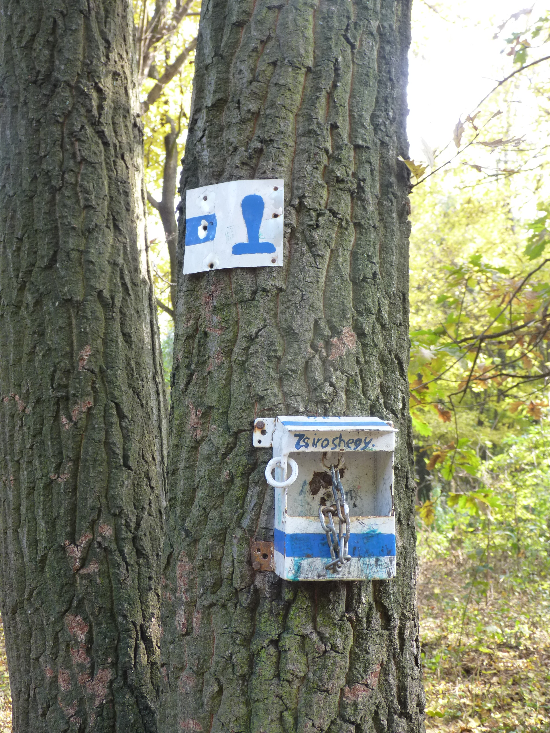 Országos Kéktúra stamp, Zsíros-hegy